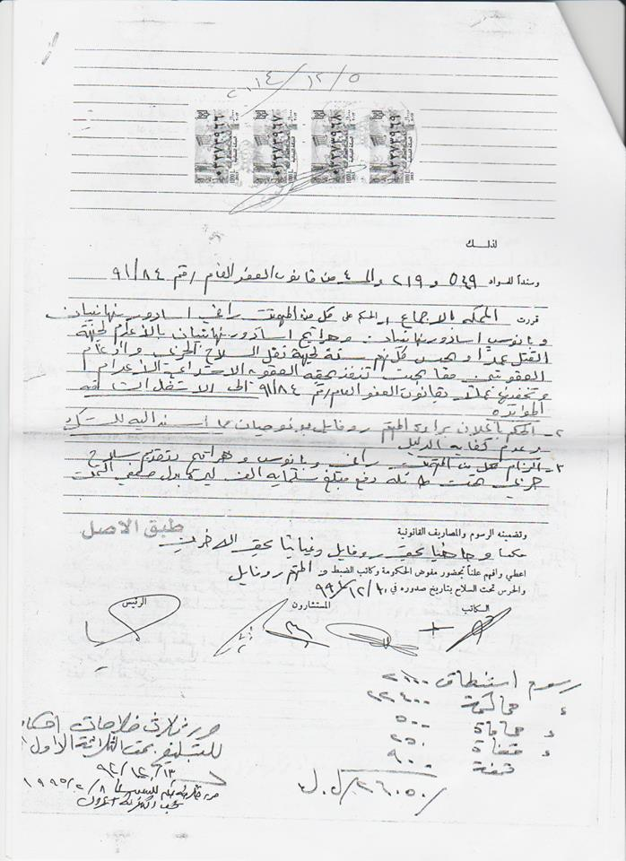 "The Bourj Hammoud Massacre". A photo of the judiciary verdict on the three participants of "The Bourj Hammoud Massacre".